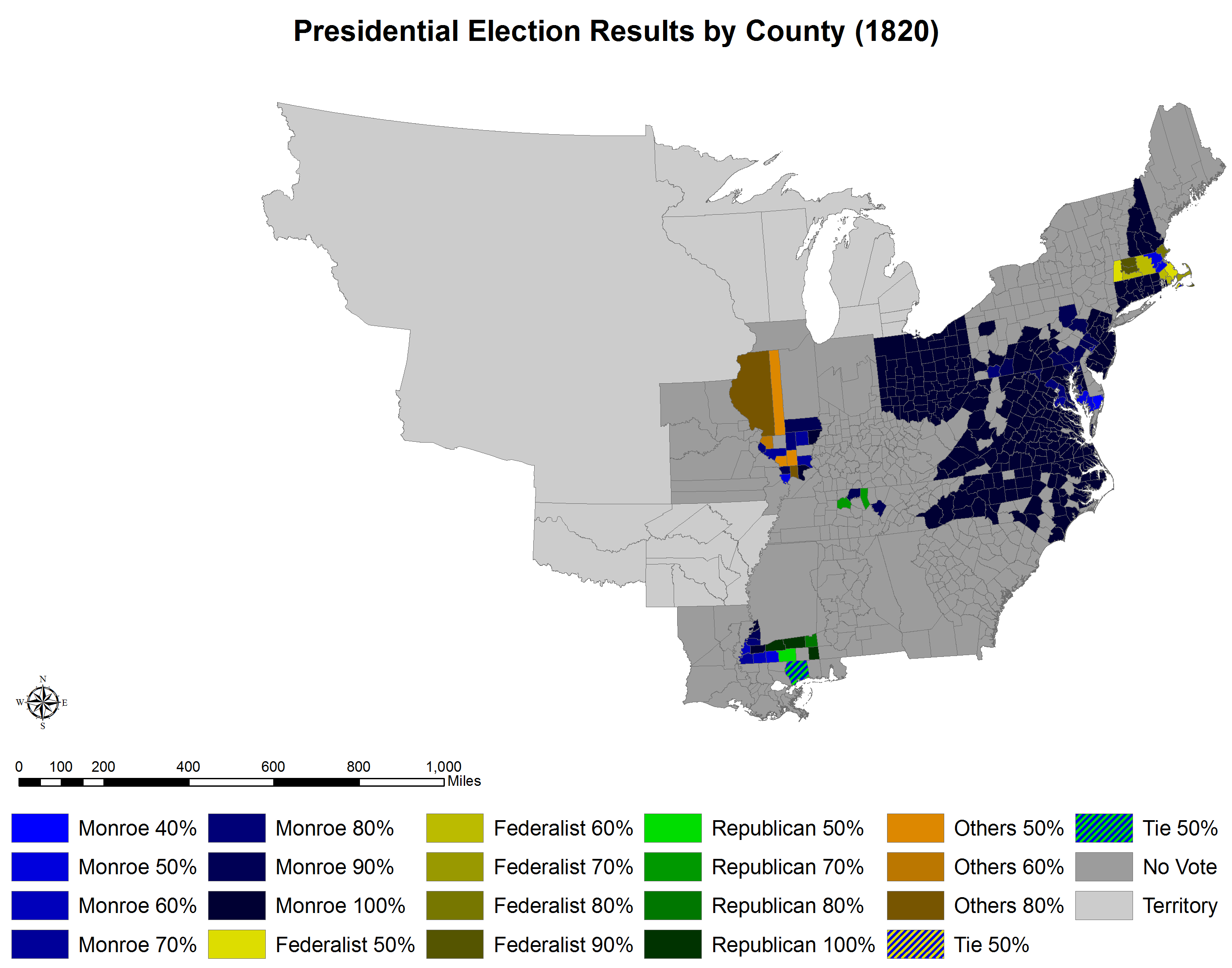 Presidential election results by county (1820).